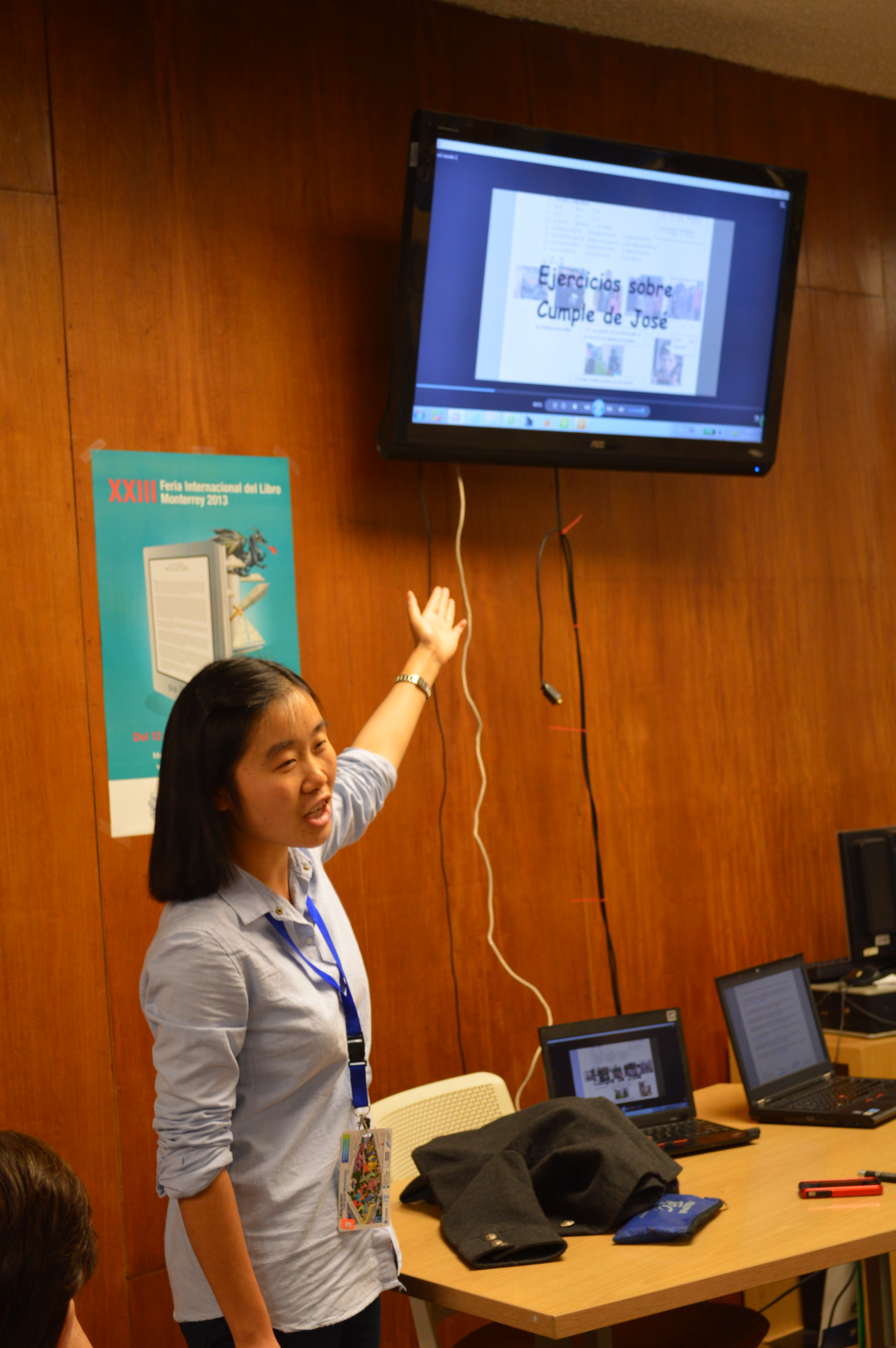 Li Ying preseting on her project at the 8o Congreso de Innovación y Tecnología Educativa at ITESM Campus Monterrey